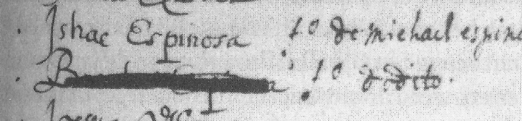 Ets Haim school, Amsterdam. Student list with the name "Baruch Espinosa" crossed out. Text: Ishac Espinosa fo [=filho, Portuguese] de Michael Espinosa [=son of Michael Espinosa] Baruch Espinosa, fo do ditto [=son of the same]